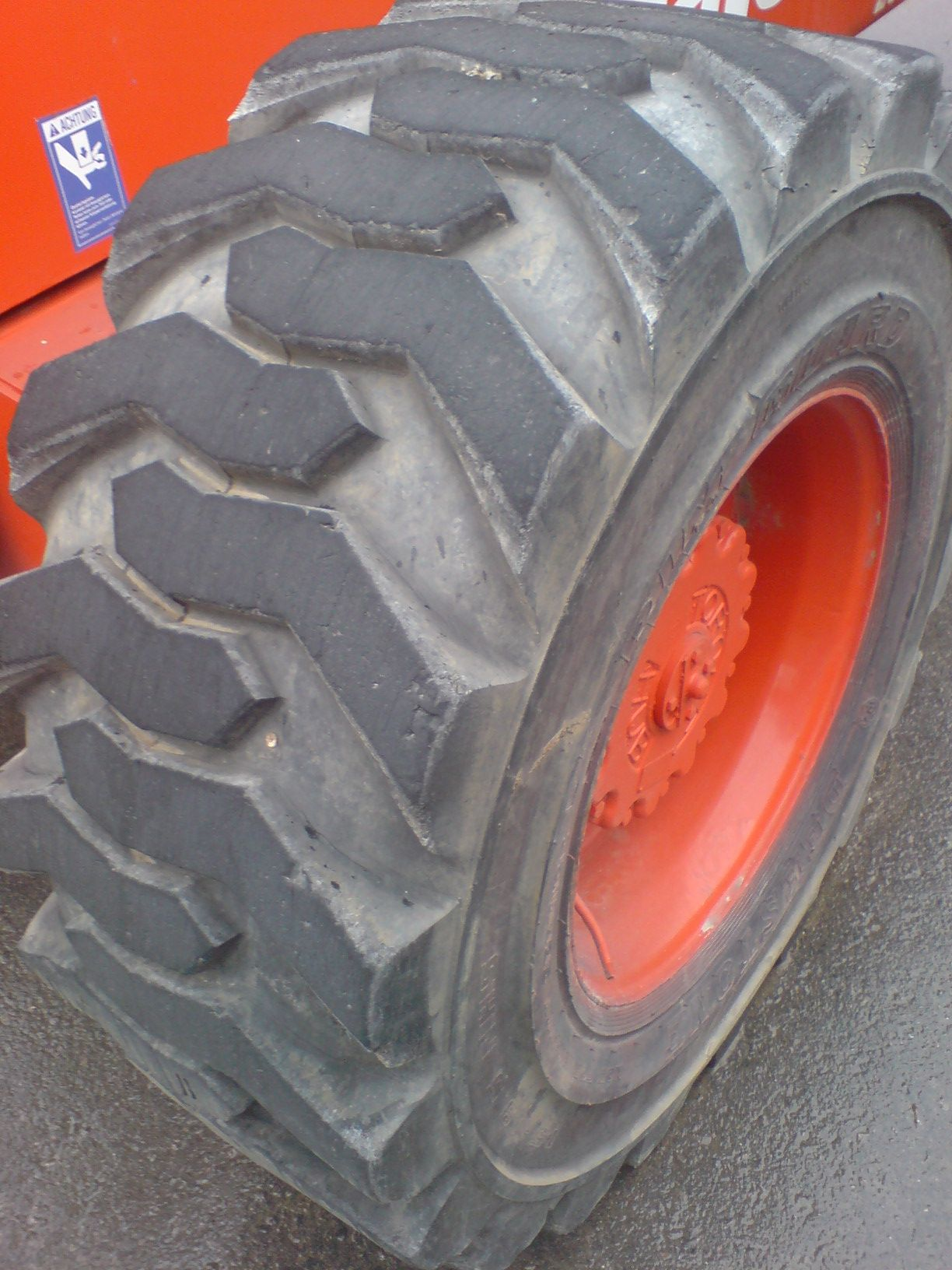 Elevator tyre